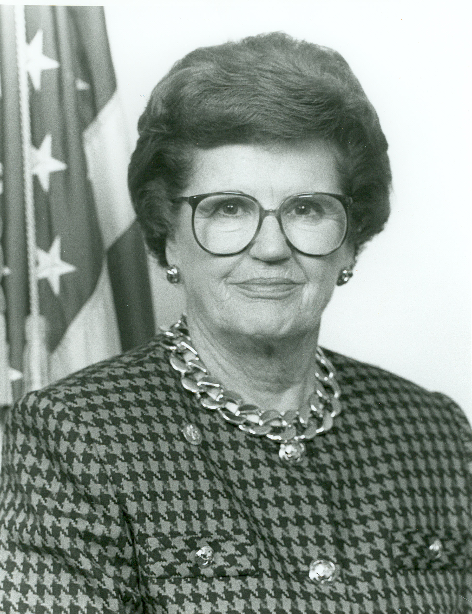 found on